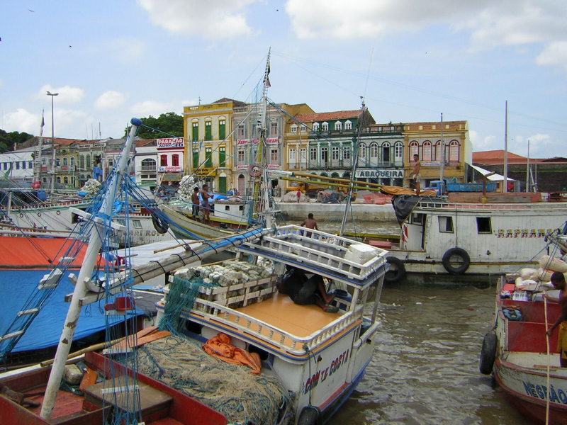 Harbour, Belém, Pará, Brazil